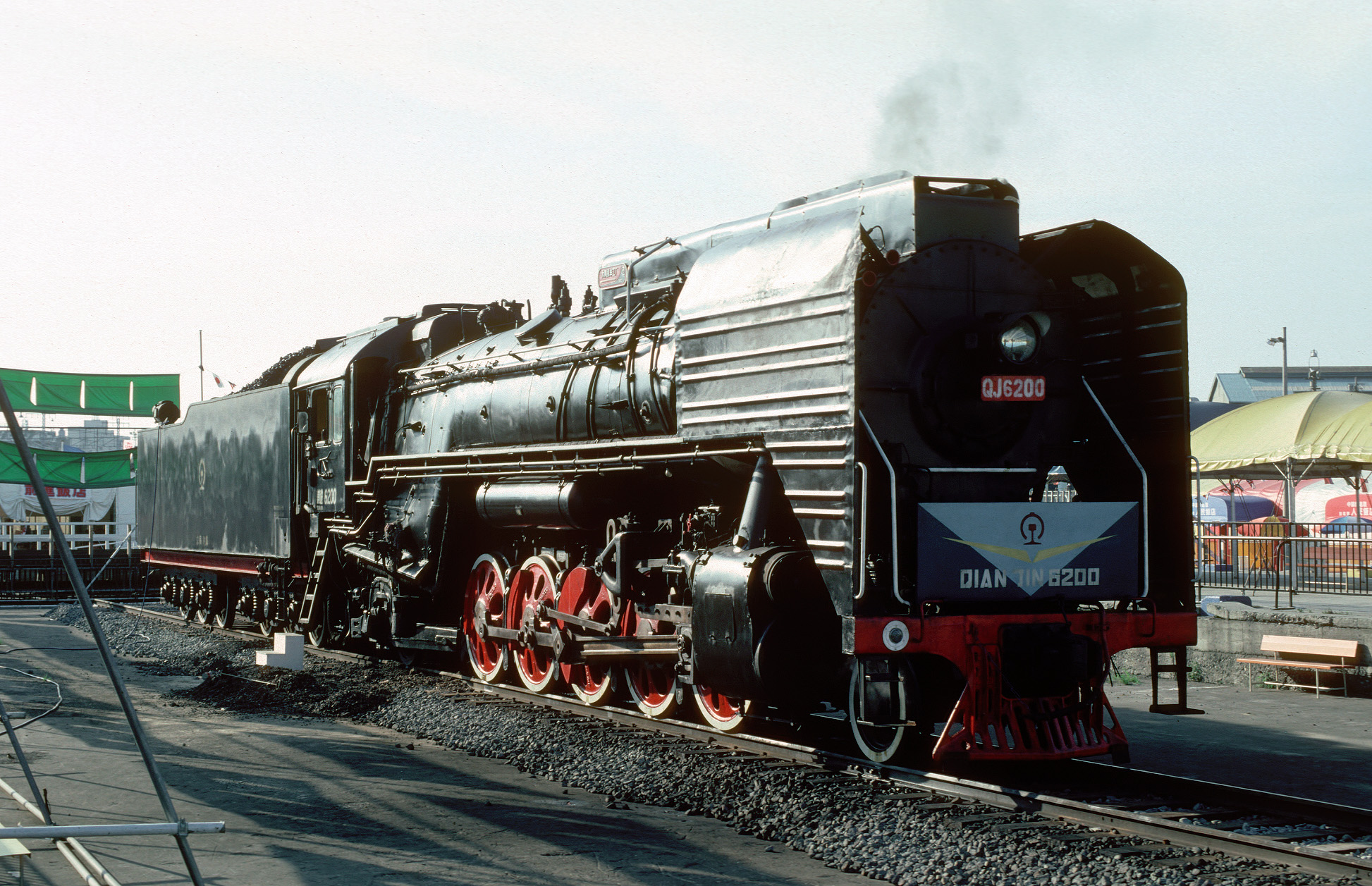 China Railways Qian Jin type steam locomotive in the China Railways exposition held in Sakuragicho, Yokohama, Japan.